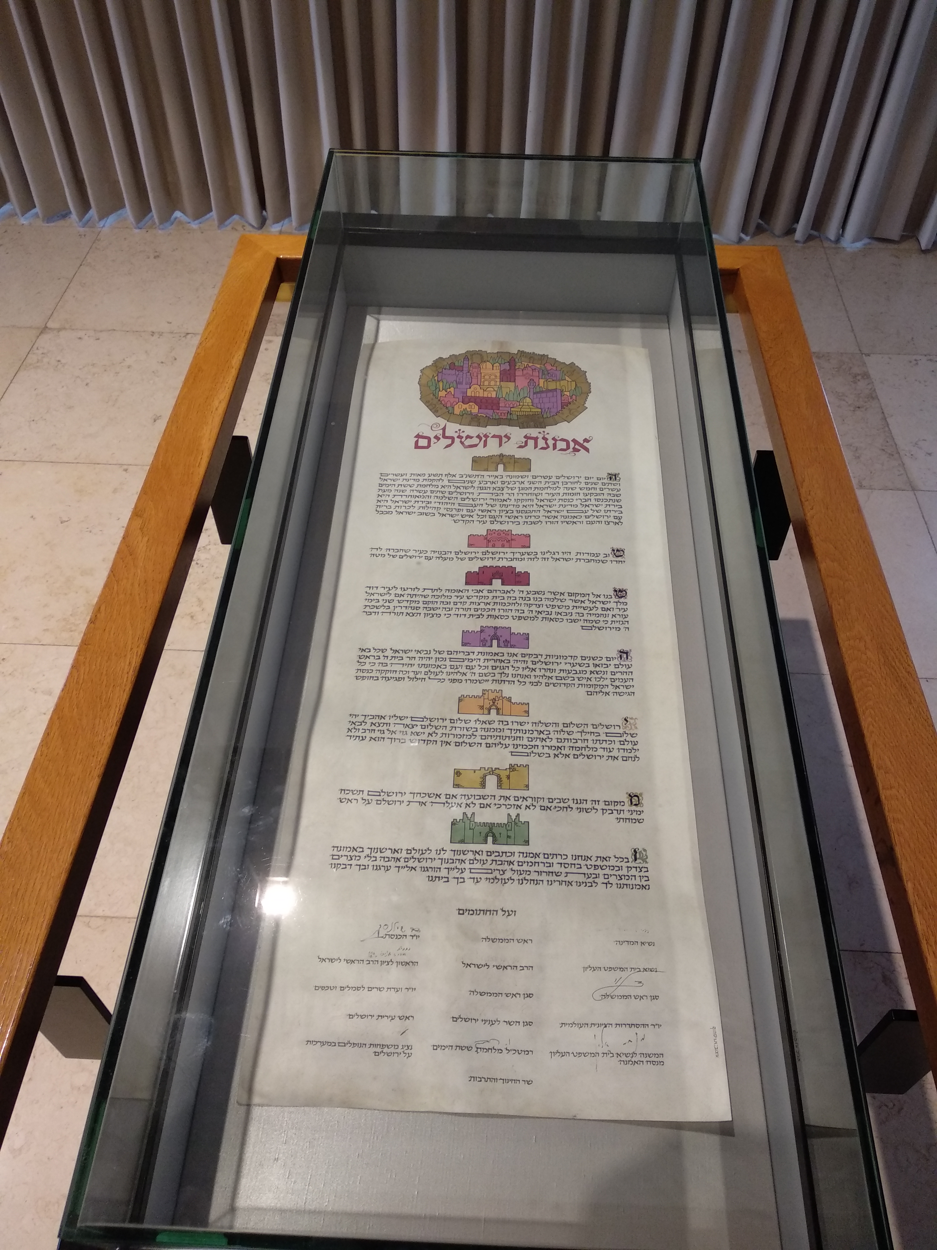 Jerusalem Convention (31/5/1992) In the Knesset